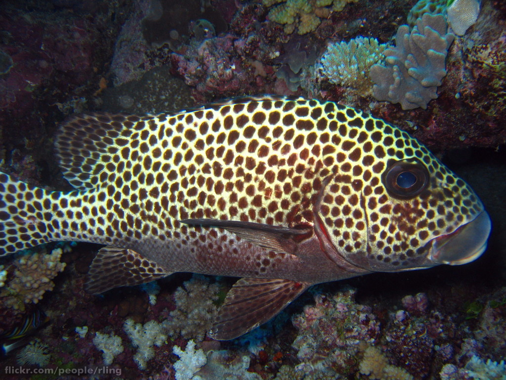 Harlequin Sweetlips (Plectorhinchus chaetodonoides). Cod Hole, Ribbon Reefs, Great Barrier Reef